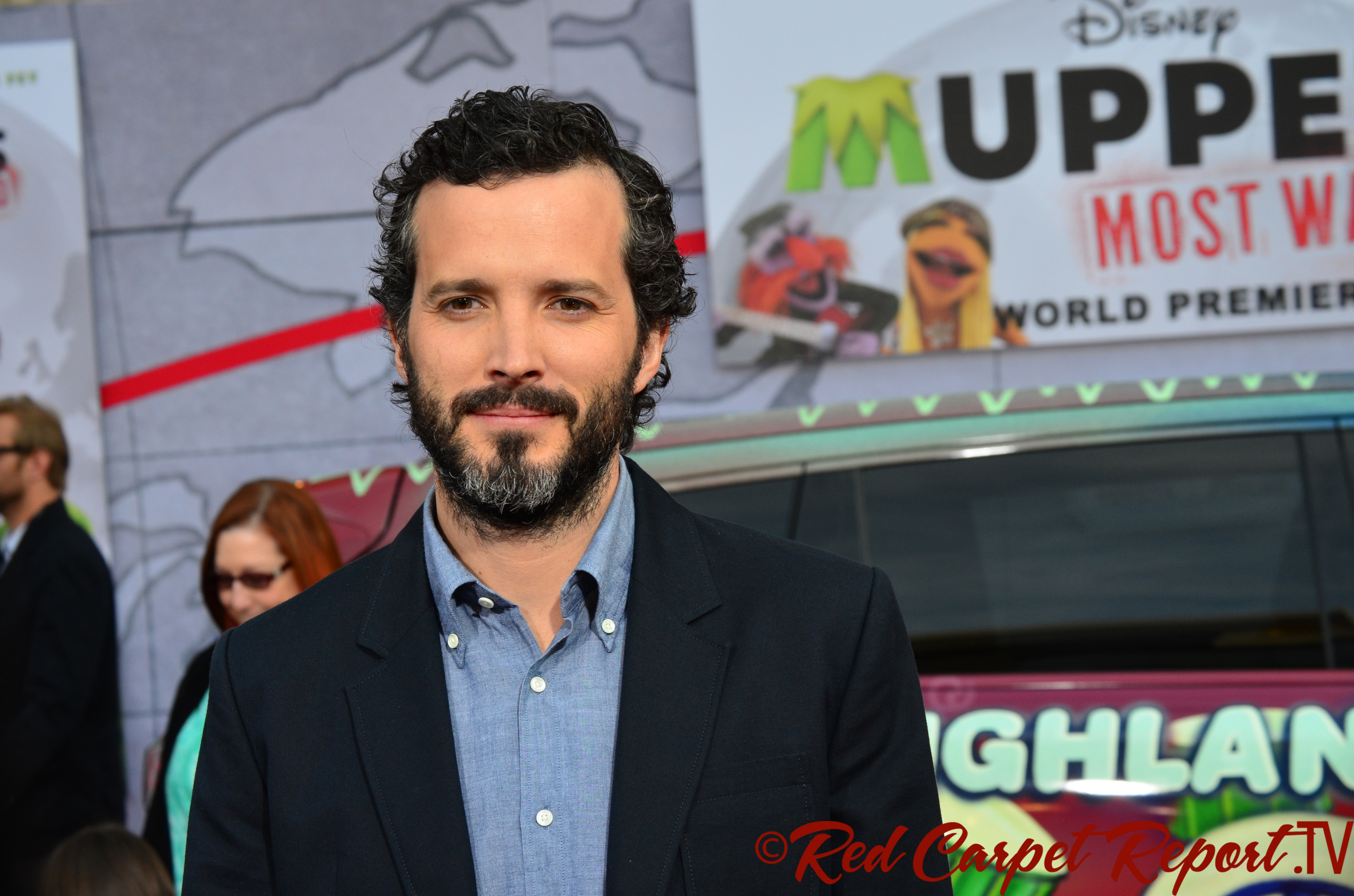 Comedian, actor, musician and producer Bret McKenzie at the Muppets Most Wanted Premiere at the El Capitan Theater in Hollywood on March 11, 2014